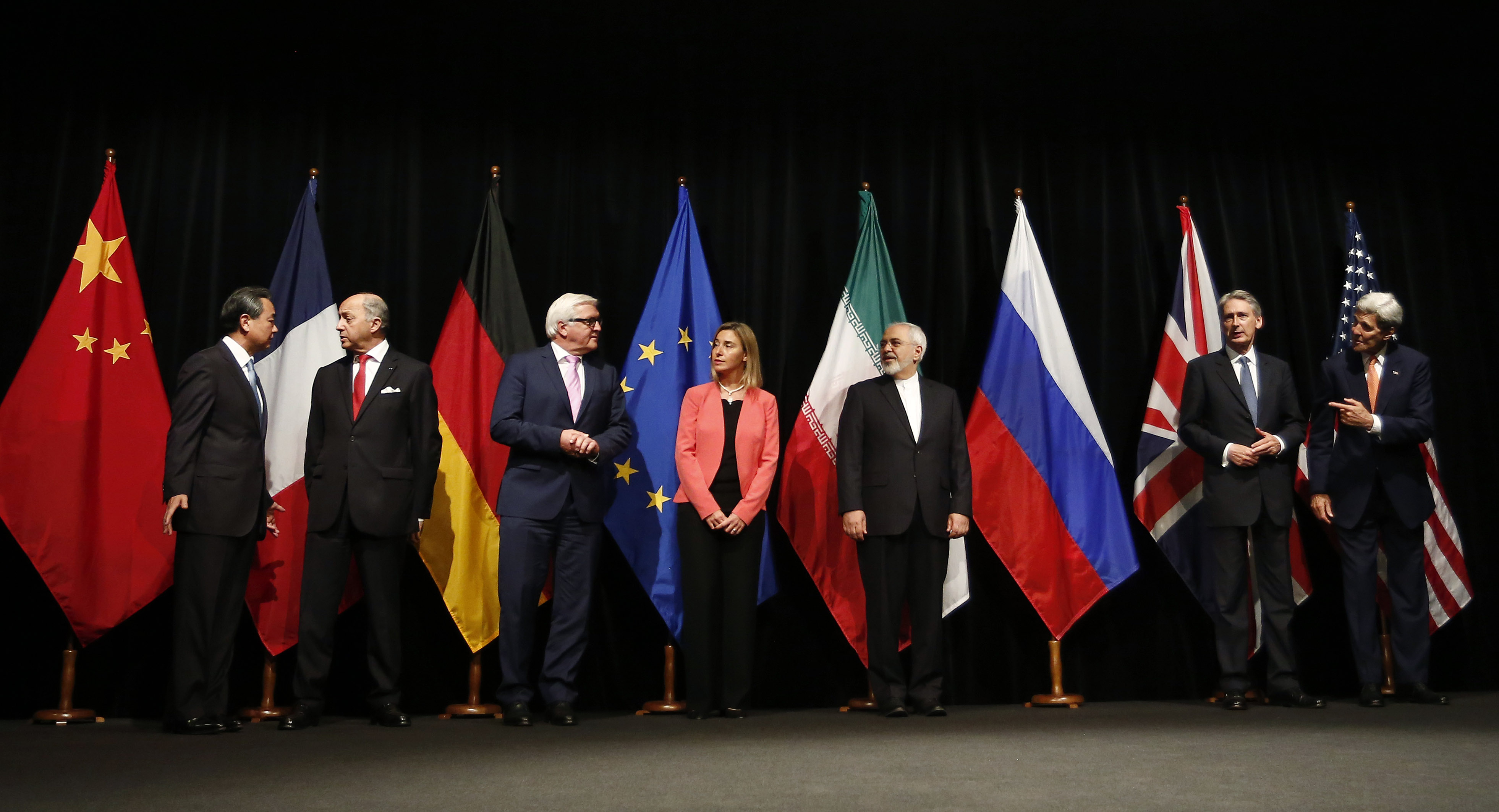 Iran nuclear deal: agreement in Vienna. From left to right: Foreign ministers/secretaries of state Wang Yi (China), Laurent Fabius (France), Frank-Walter Steinmeier (Germany), Federica Mogherini (EU), Mohammad Javad Zarif (Iran), Philip Hammond (UK), John Kerry (USA).